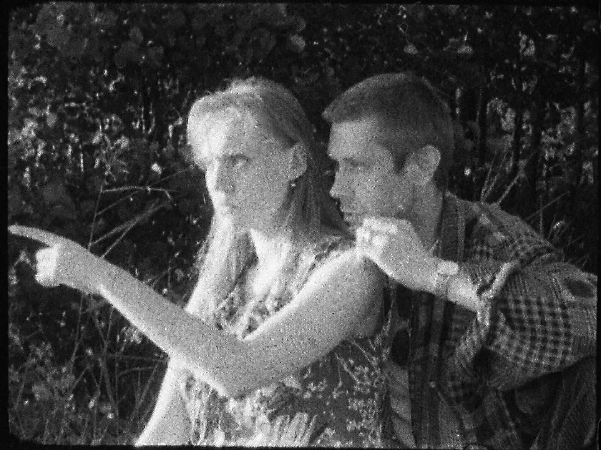 Natalya Surkova and Yuri Yadrovsky on the shooting of Dmitry Frolov's film "Люди луннаго свЪта" (Moonlight People) (2019).